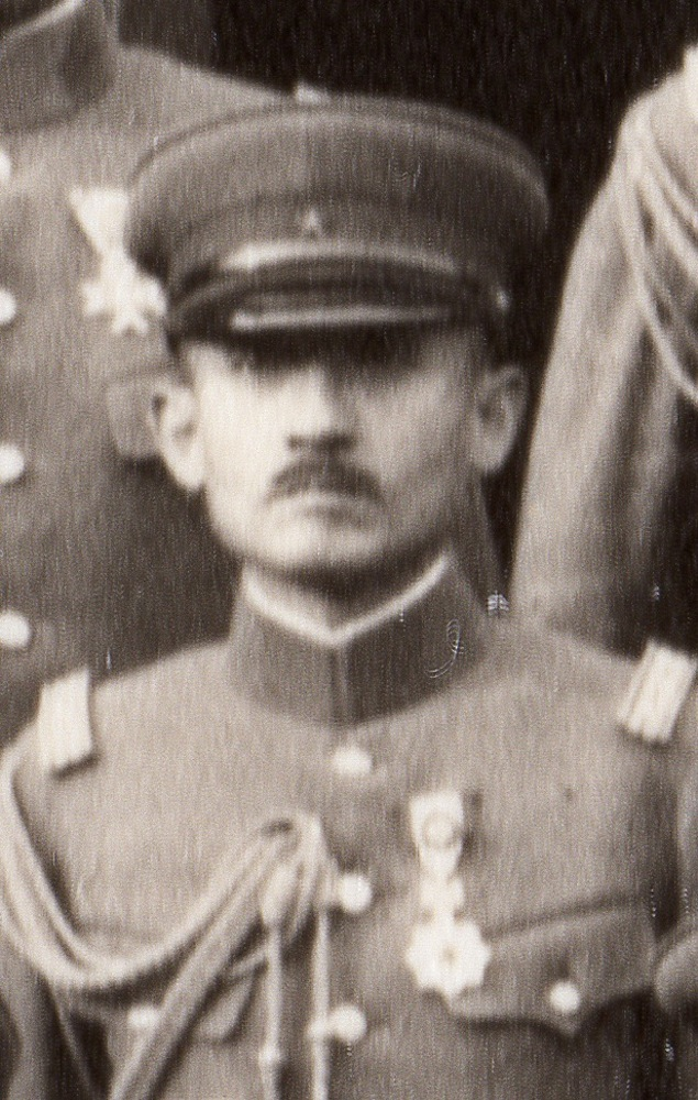 Lieutenant General Tsunamasa Shidei